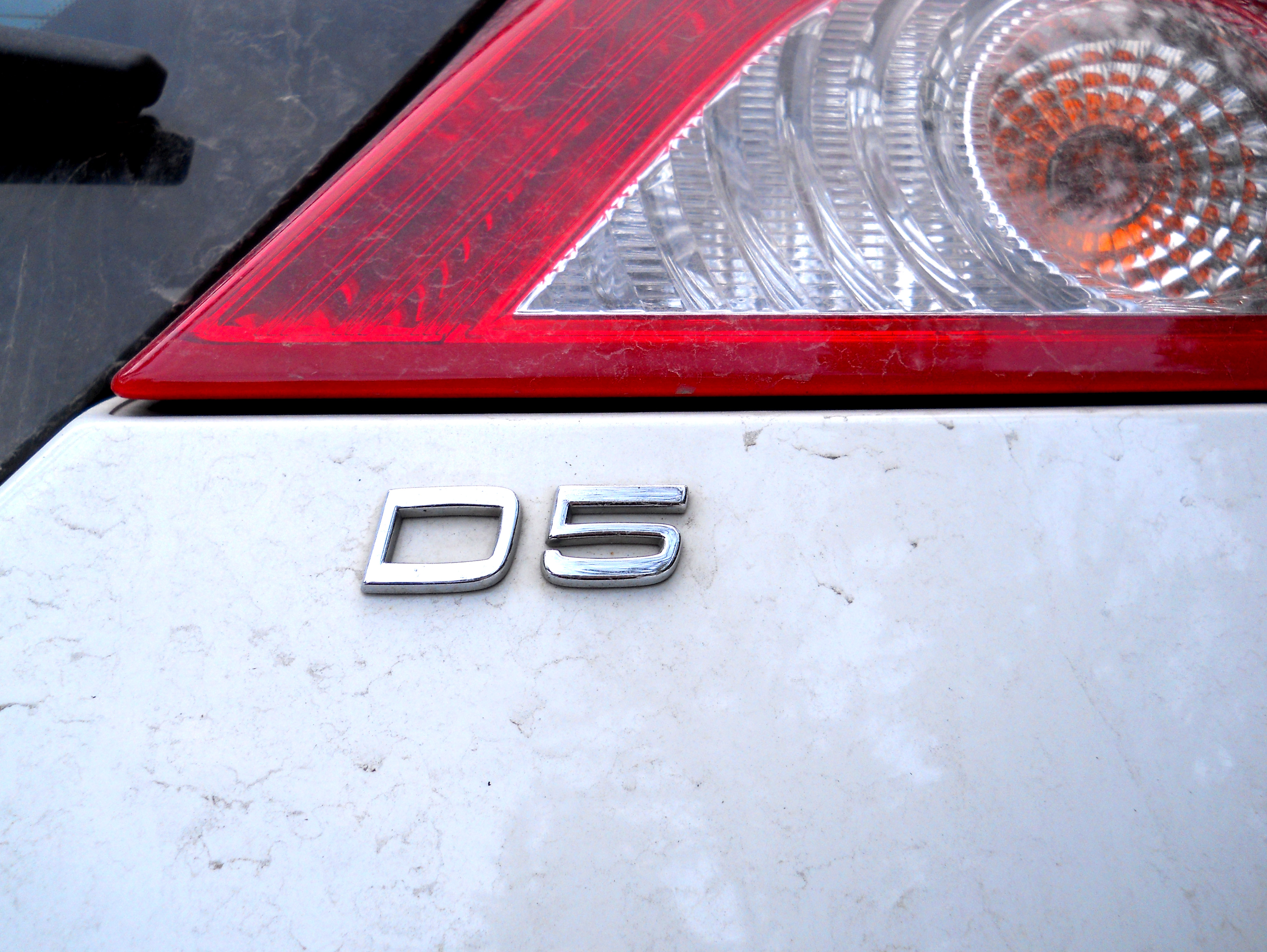 2008 Volvo C30 with D5 engine. Detail of type indication.